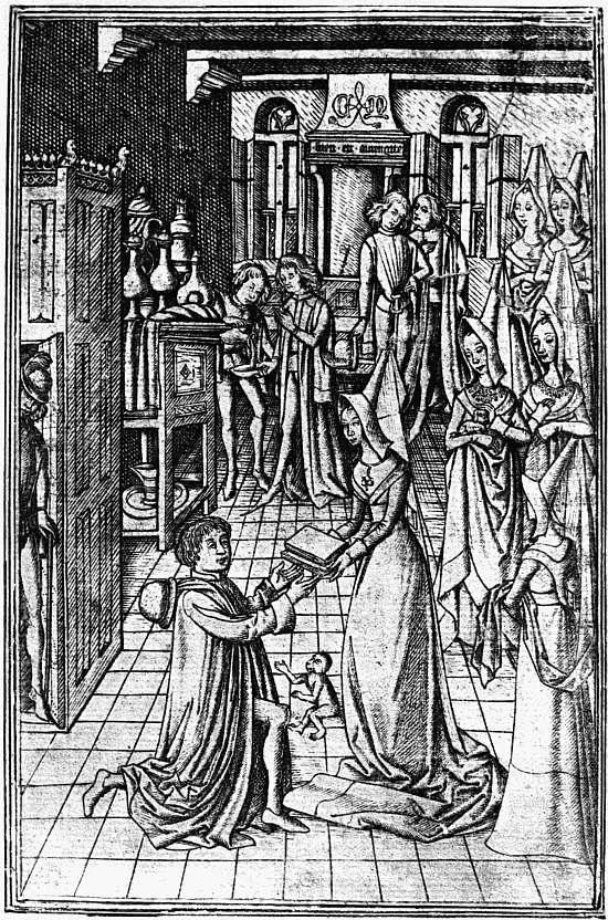 frontispiece woodcut depicting William Caxton handing two volumes to Margaret of York